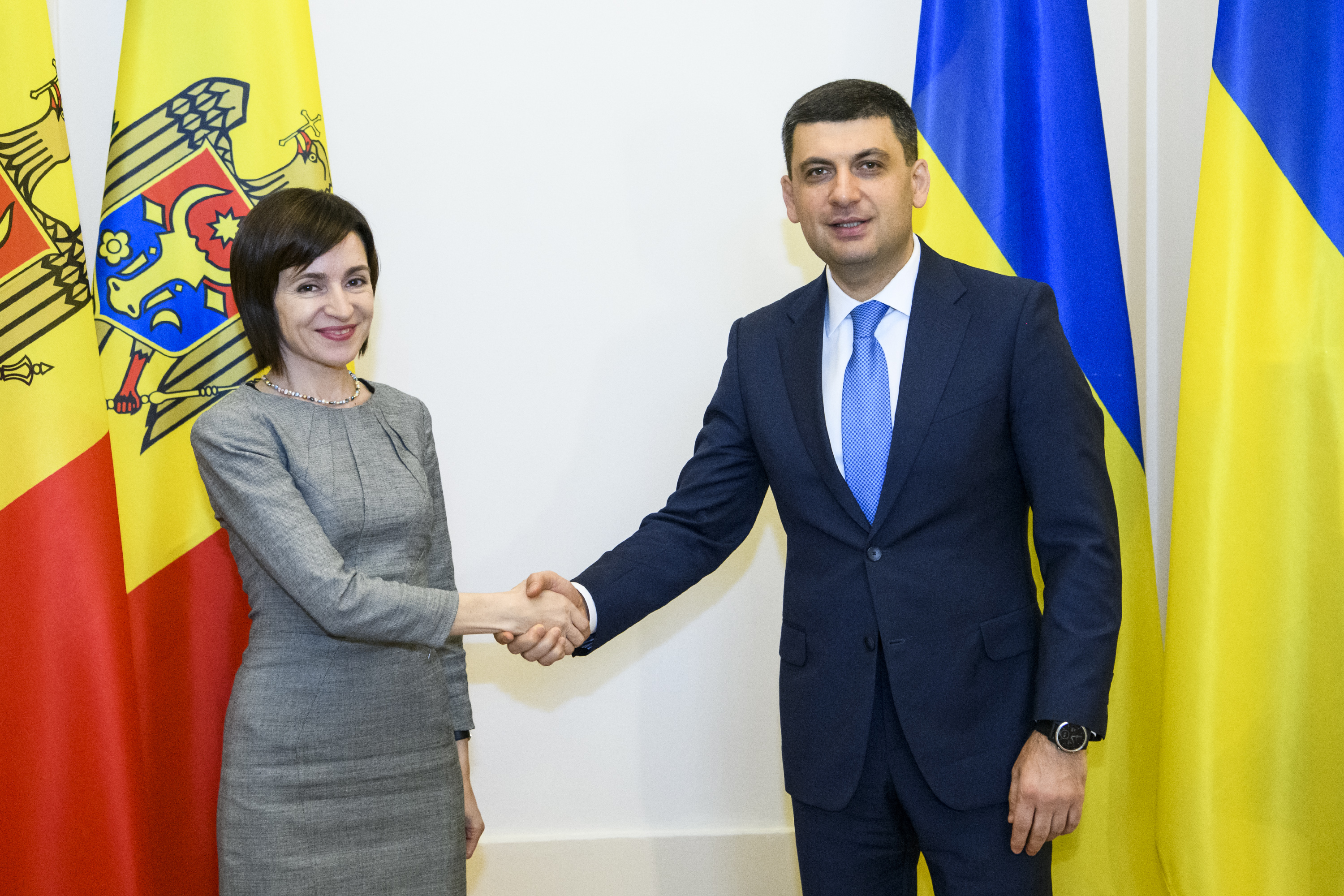 Prime Minister of Ukraine Volodymyr Groysman met with Prime Minister of the Republic of Moldova Maia Sandu